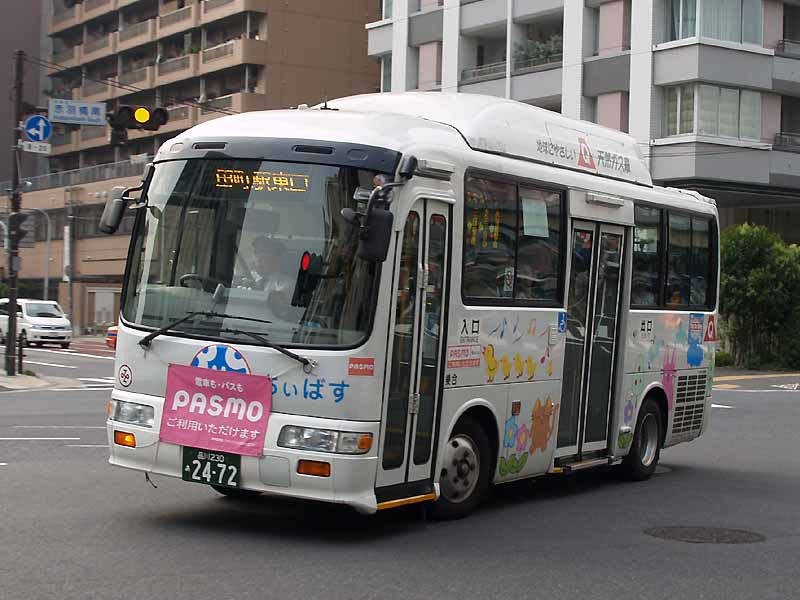 Tokyo Minato Ward community route bus "Chii-Bus" operated by Fuji Express, a group of Fujikyu. Model: Hino Liesse (KK-RX4JFEA) wheelchair lift equipped in center door. CNG vehicle modified: Kyodo Co. License plate: TKS230 A2472 Place: neighbour of Akabane-bashi, Minato-ward Tokyo Japan